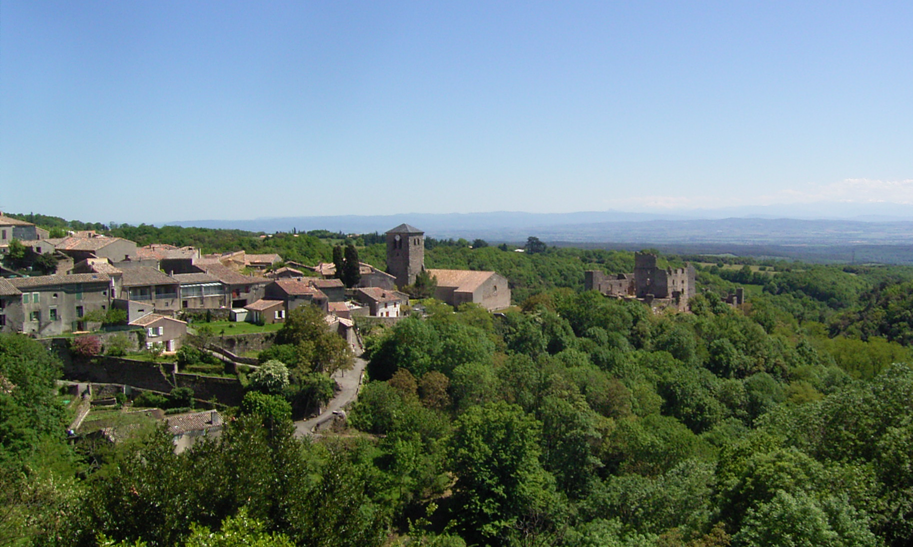 Saisac, France : village and castle